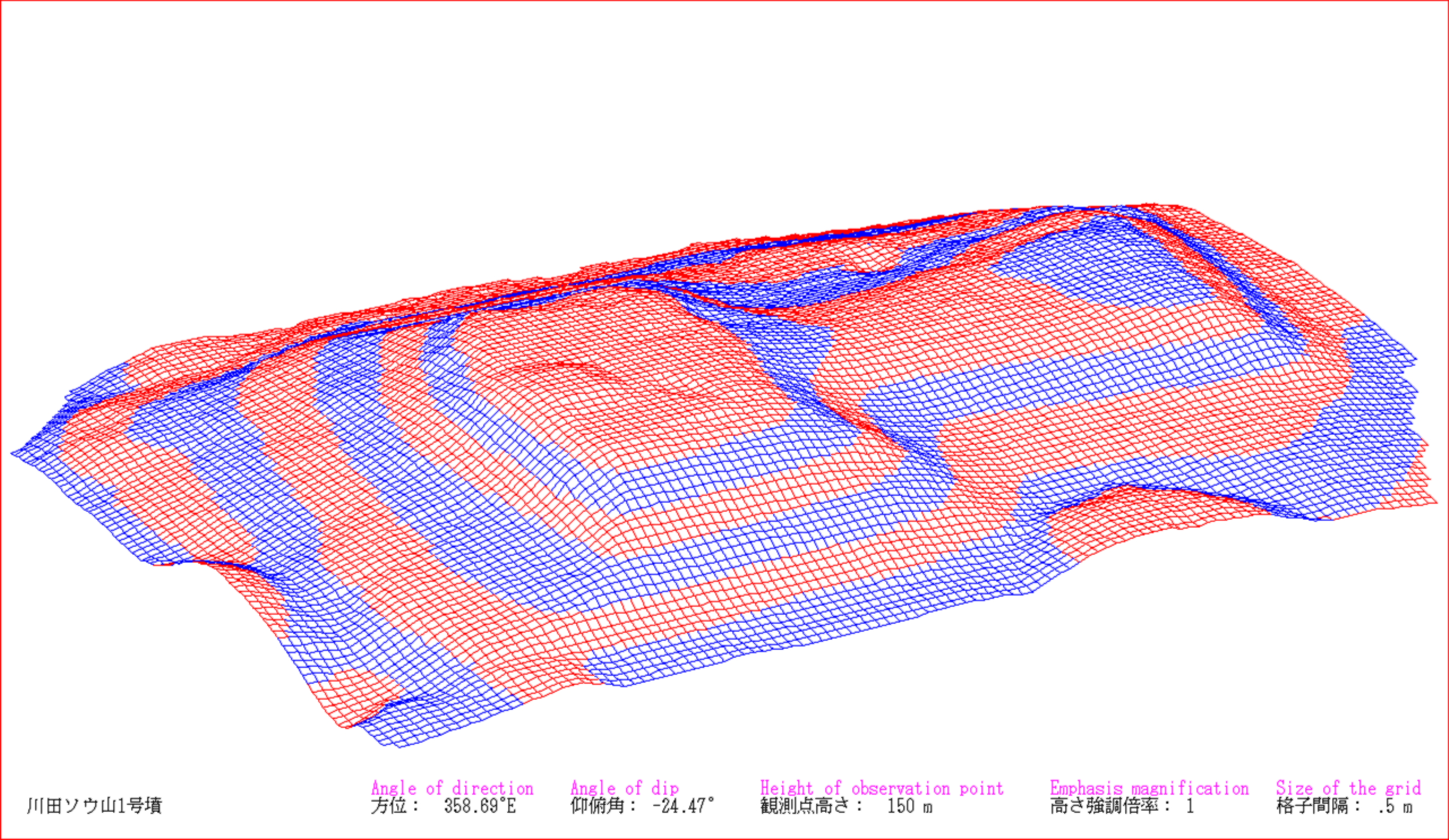 I who am a contributor drew the picture by a software which developed by myself. The survey map which I referred to depends on "「第30図 ソウ山支群測量図(3)」『石川県鳥屋町川田古墳群』鳥屋町教育委員会（2001年）". This is a drawing of present situation (not a drawing of a restored mound). The drawing depends on combination of wire frame and height eight phases classification. Perspective projection.